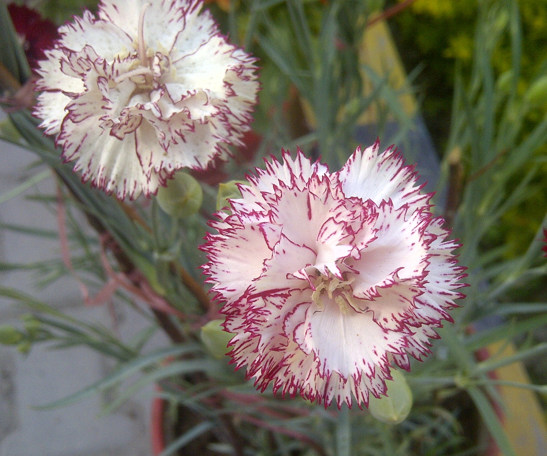 A white with purple color borders carnation (Dianthus caryophyllus)